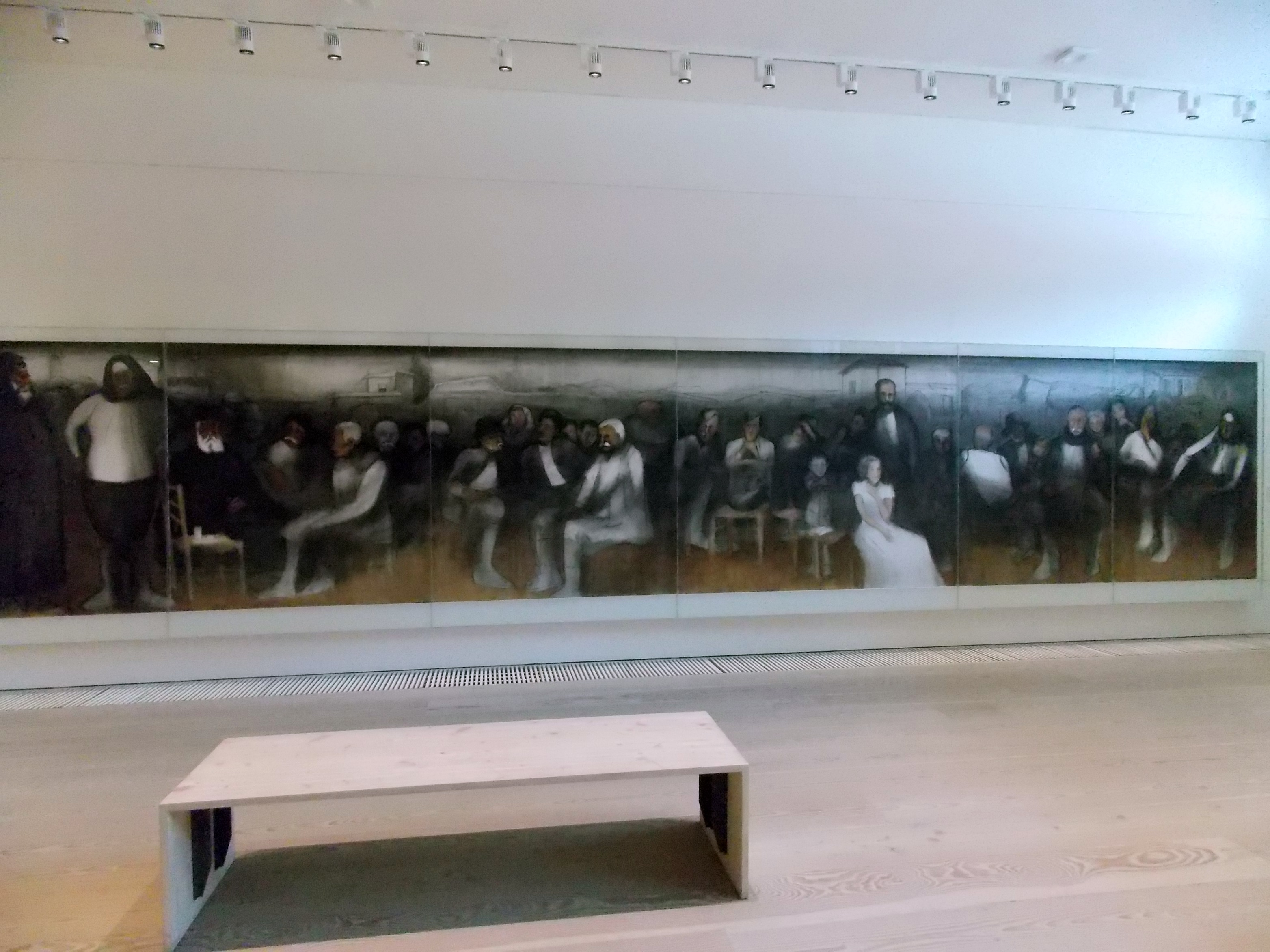 Leventis Gallery, Nicosia, Cyprus. Adamantios Diamantis - The World of Cyprus, left part. 11 acrylic paintings with a total length of 17.5 meters.